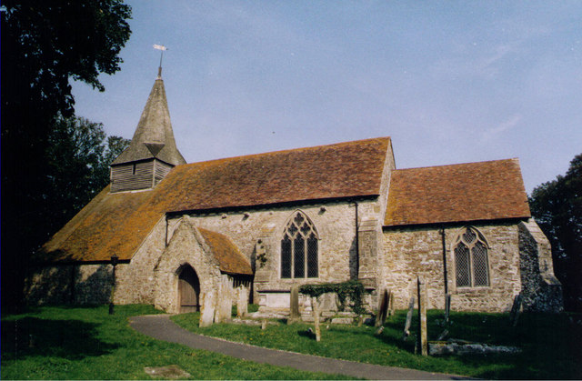 St Eanswith, Brenzett Erected in the 13th century.